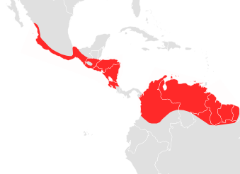 Distribution of Choeroniscus godmani